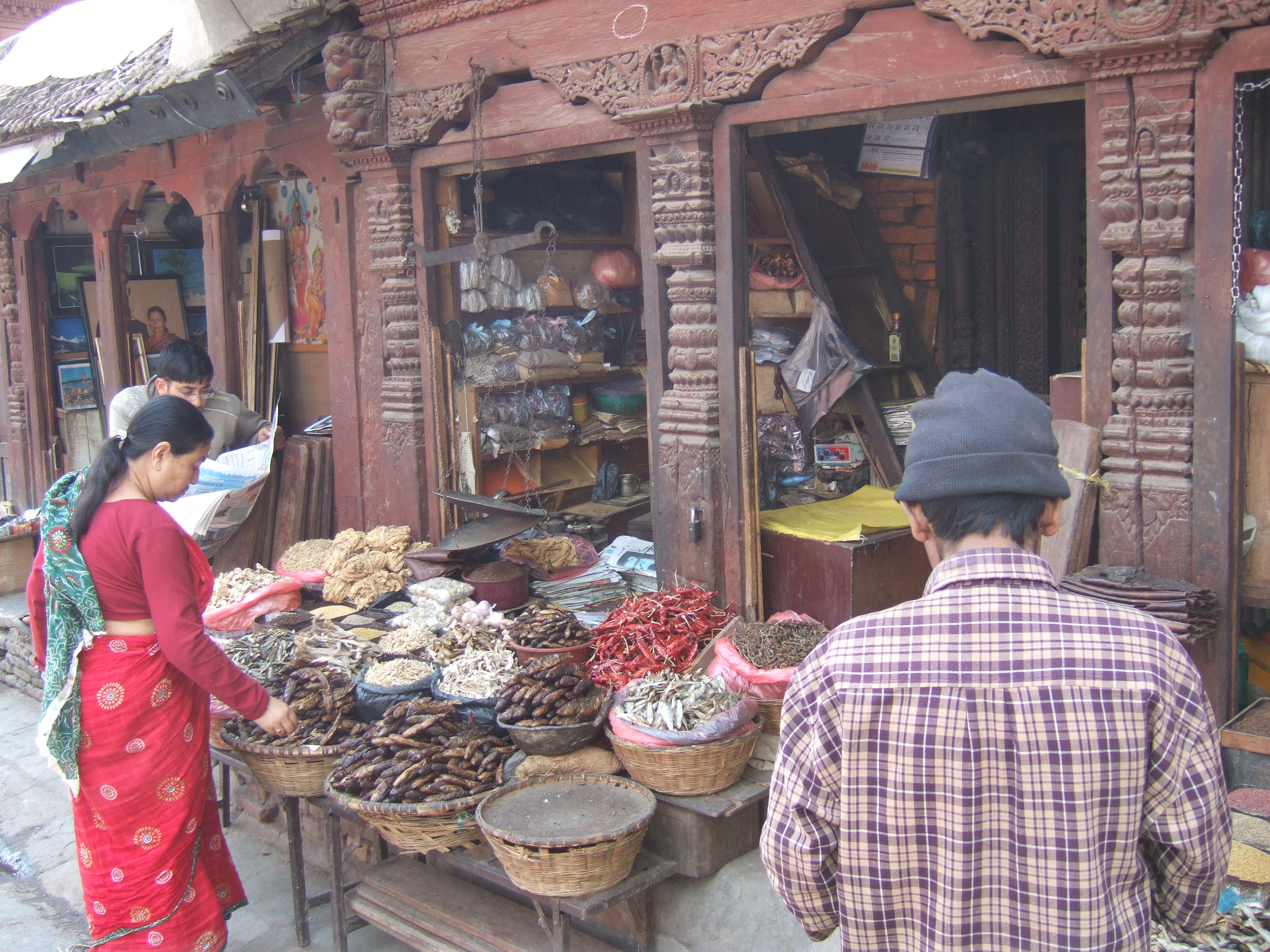 Traditional shops in Kathmandu